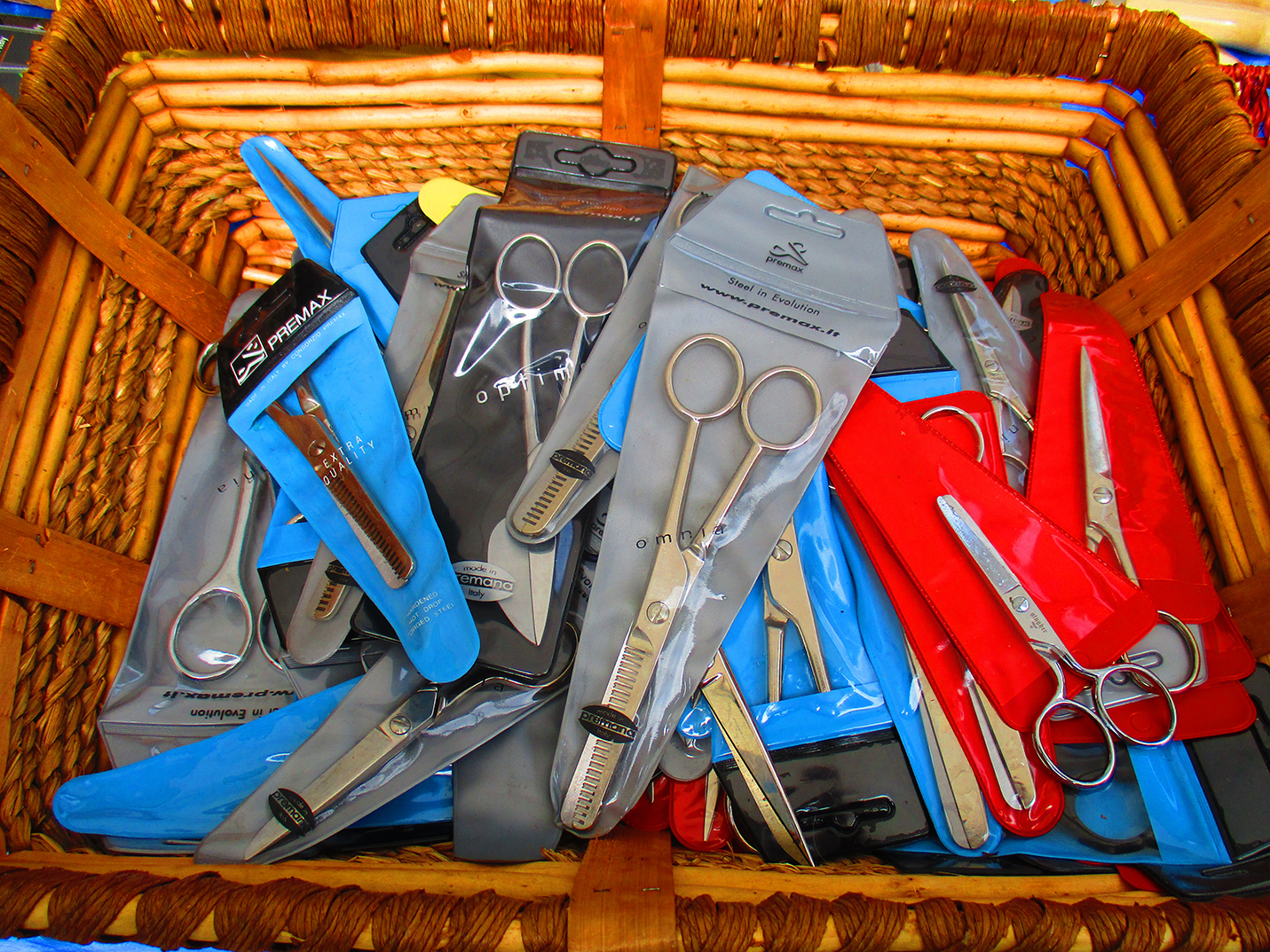 Scissors in Italy